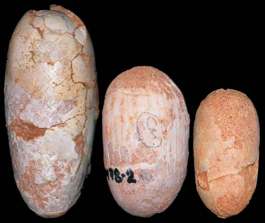 Image from Varricchio and Barta (2015), comparing the size and shape of (from left to right) Styloolithus sabathi, Gobioolithus major, and Gobioolithus minor.